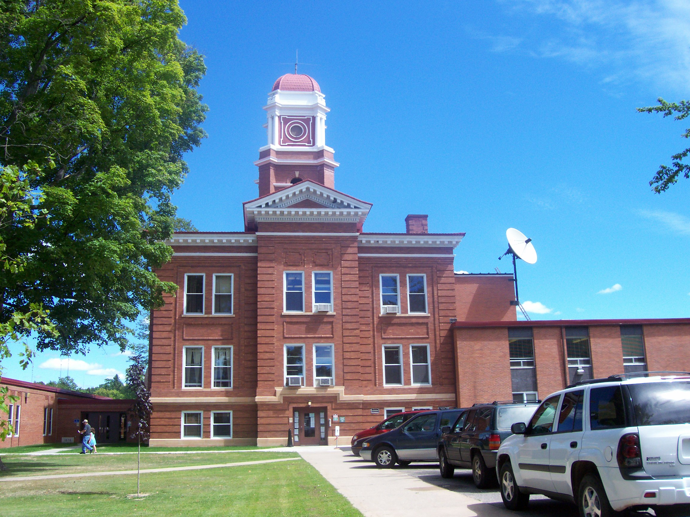 Looking east at the Forest County, Wisconsin courthouse on Wisconsin Highway 32 / Wisconsin Highway 55 / U.S. Route 8 in Crandon, Wisconsin, U.S.